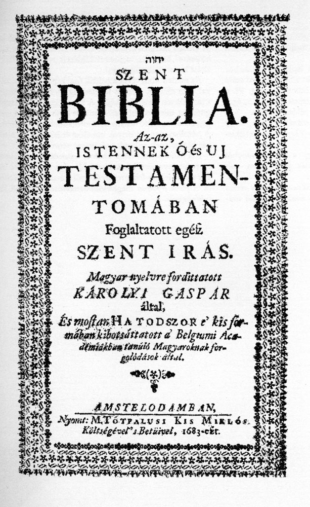 The title page of the amsterdam bible